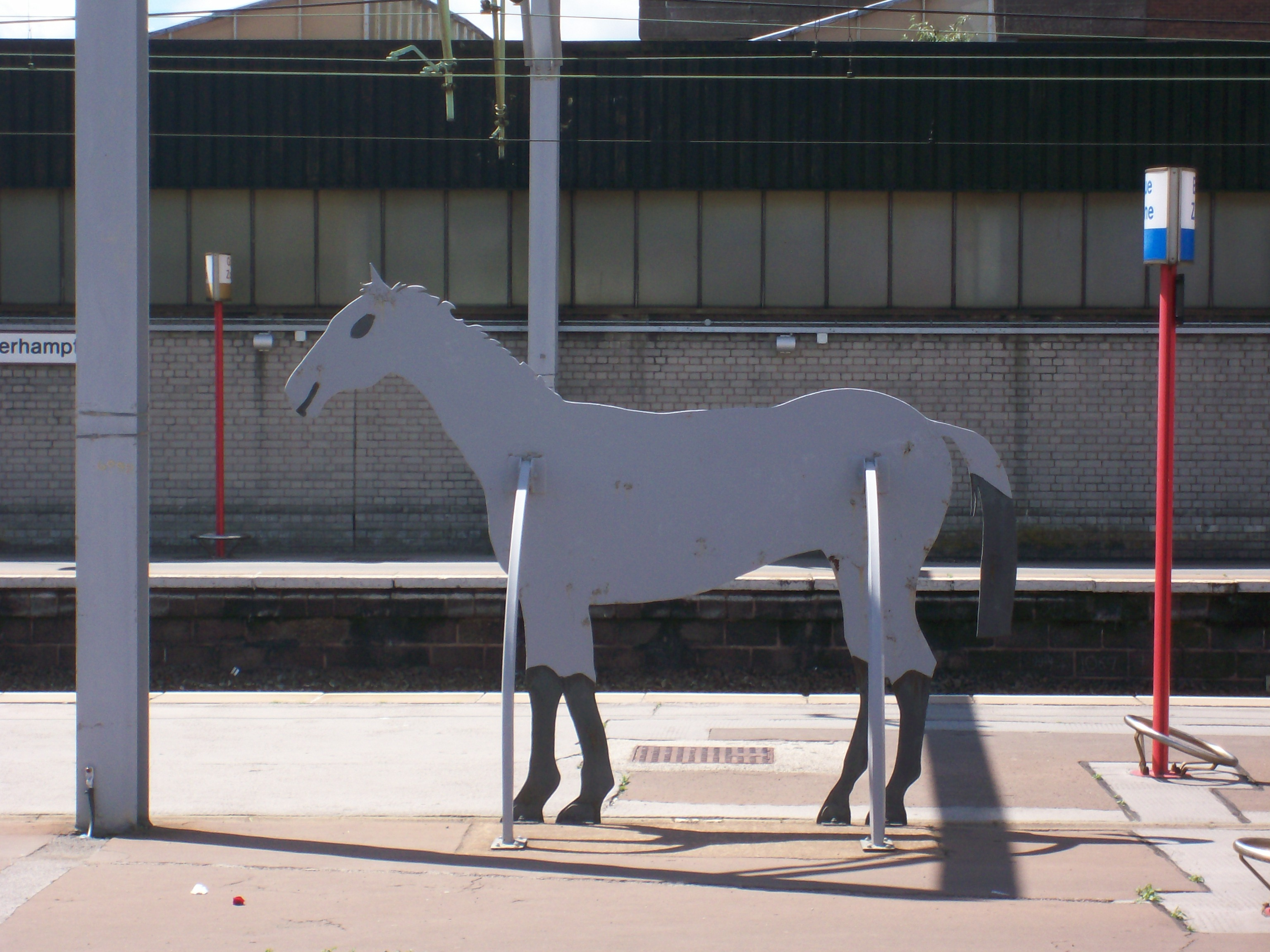 1987 Sculpture of a horse by Kevin Atherton, located on platforms 2/3 at Wolverhampton railway station